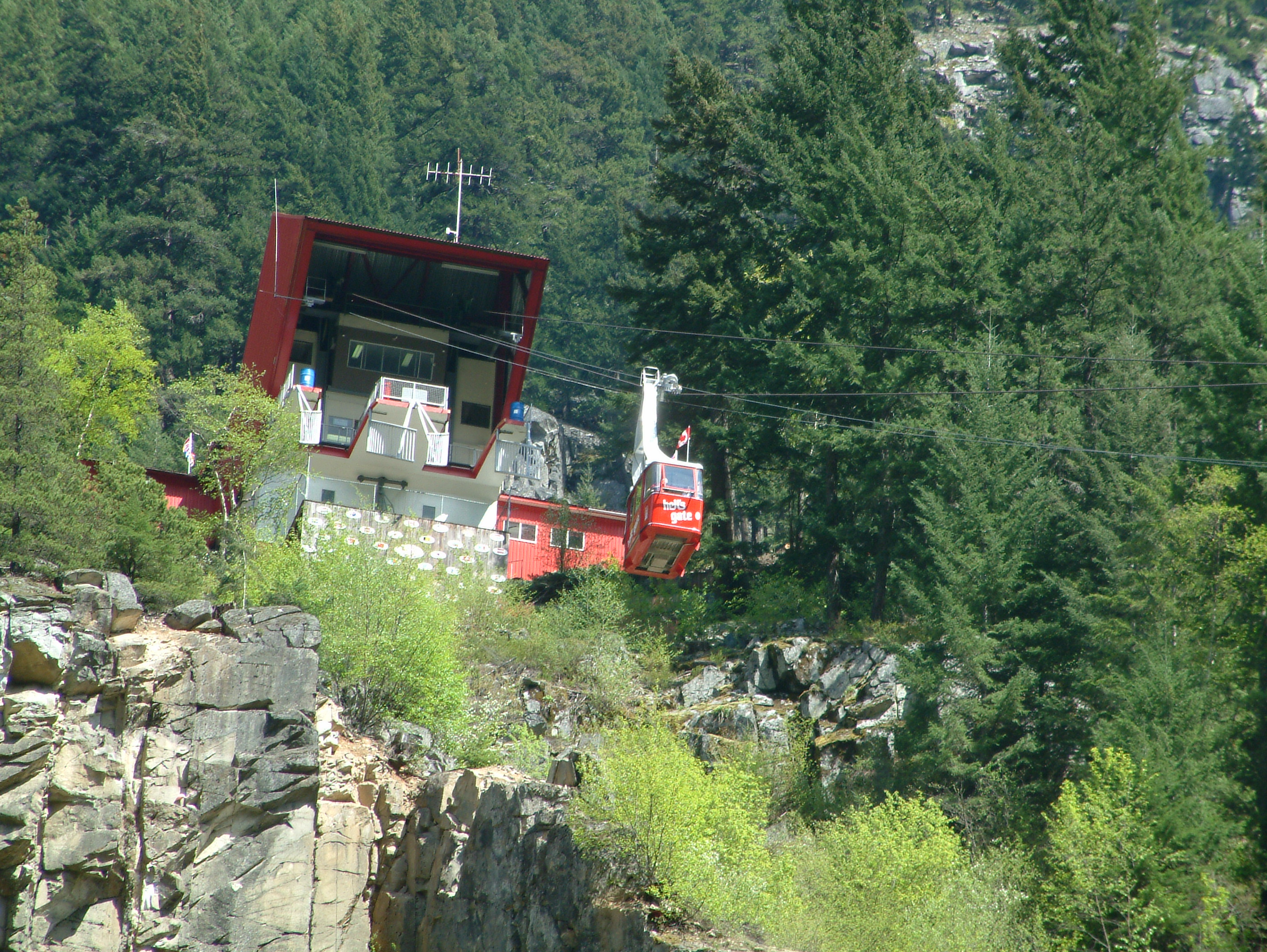 Photograph of the Airtram at Hell's Gate, British Colombia